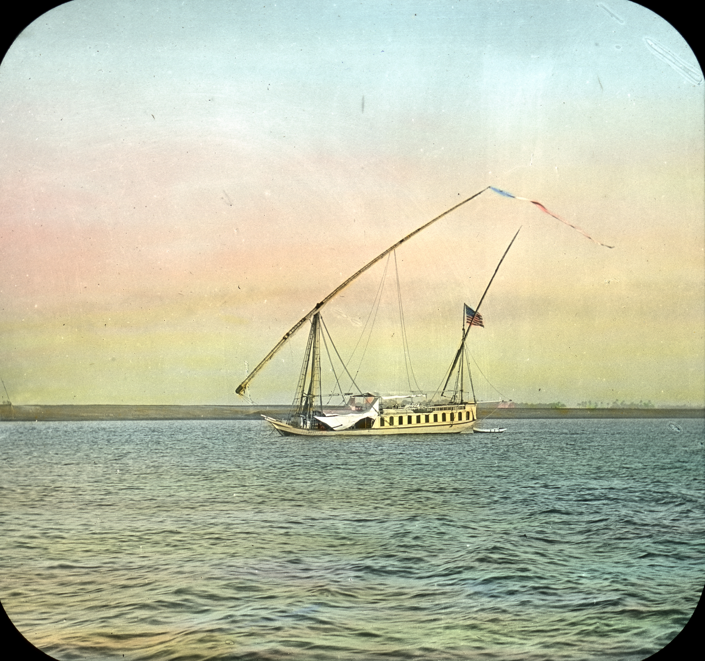 Egypt. Luxor [selected images]. View 02: Egypt - Dhahabiyeh of American Tourists, Luxor., n.d., T. H. McAllister, Manufacturing Optician. 49 Nassau Street, New York. Brooklyn Museum Archives (S10.08 Luxor, image 9924).